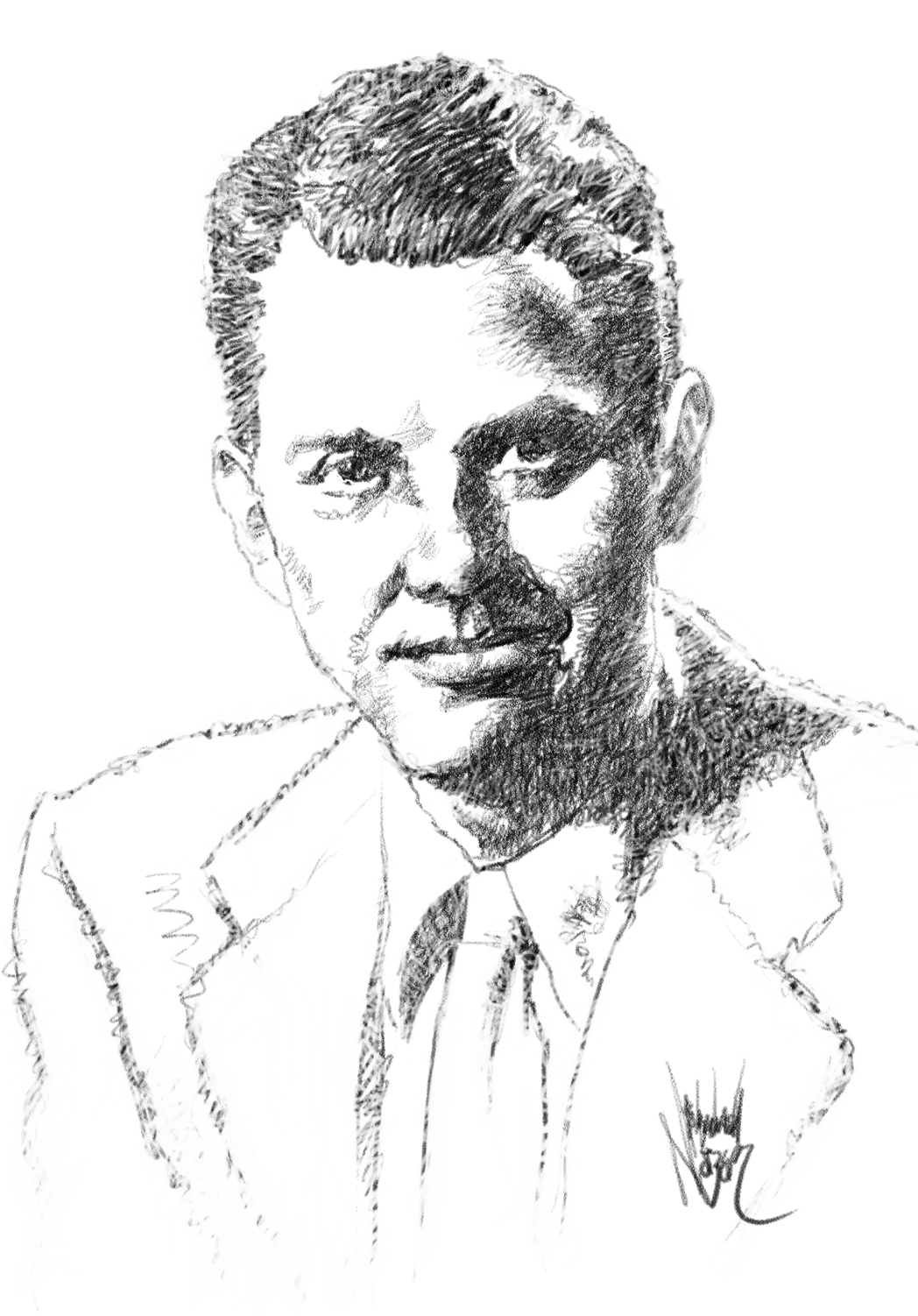 Portrait of comics artist Wayne Boring, from Michael Netzer's Portraits of the Creators Sketchbook.